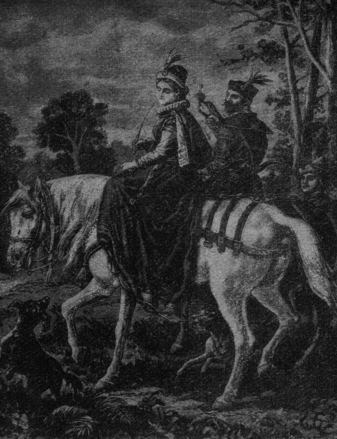 Portrait of Gryzelda Batory